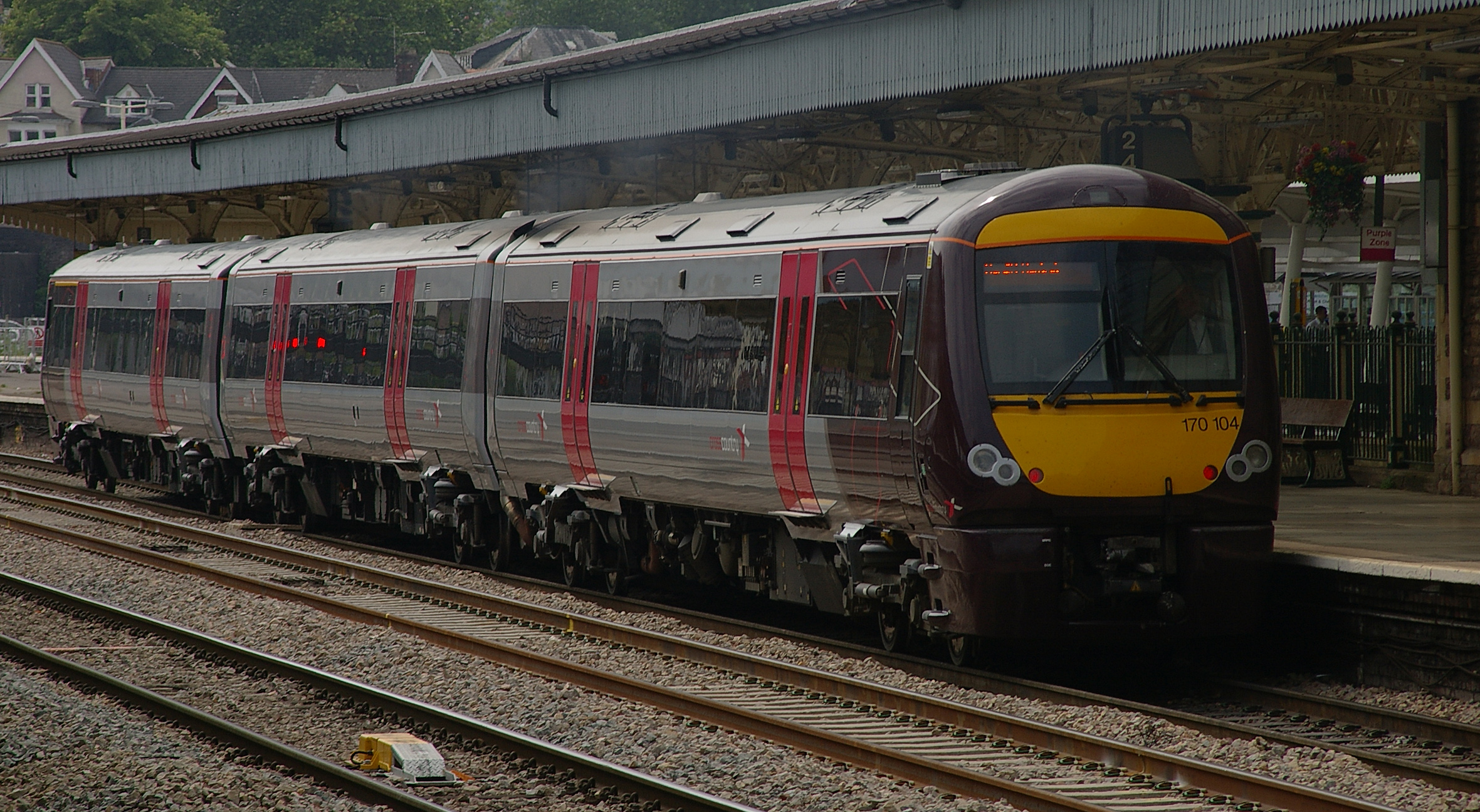 Cross-Country 170104 service to Cardiff Central at Newport railway station.